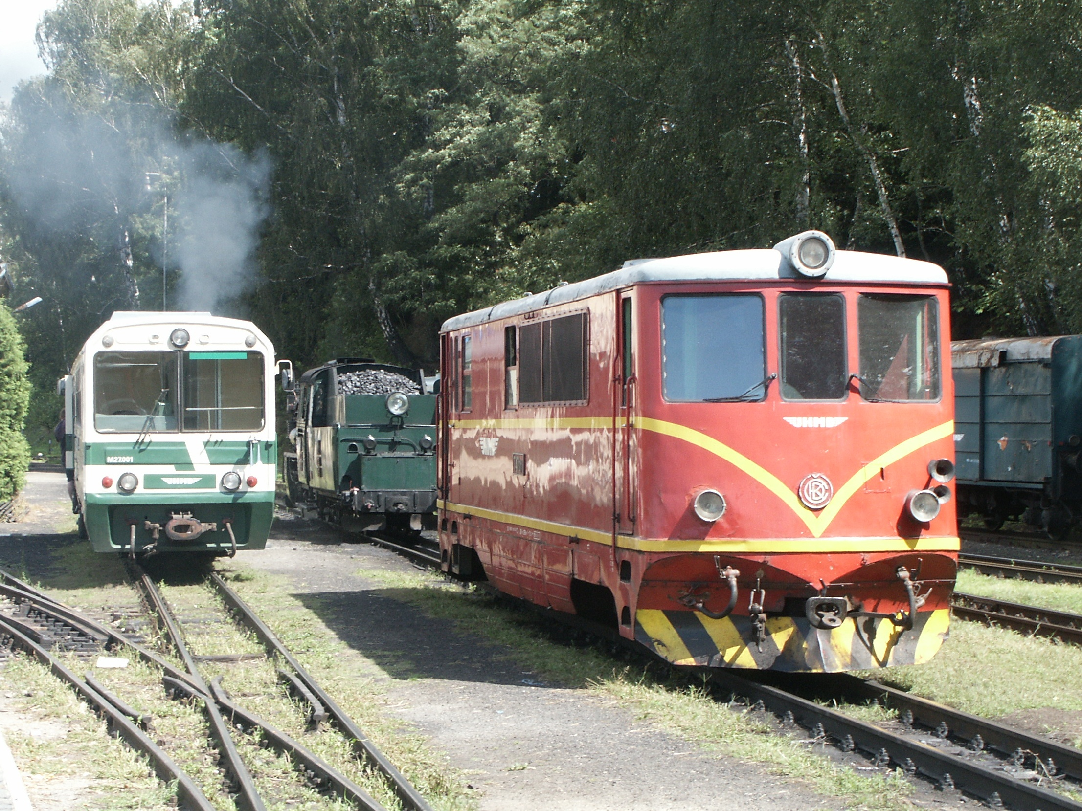 Railcar M 27.001, steam locomotive U 46.101 and diesel locomotive T 47 in Jindřichův Hradec